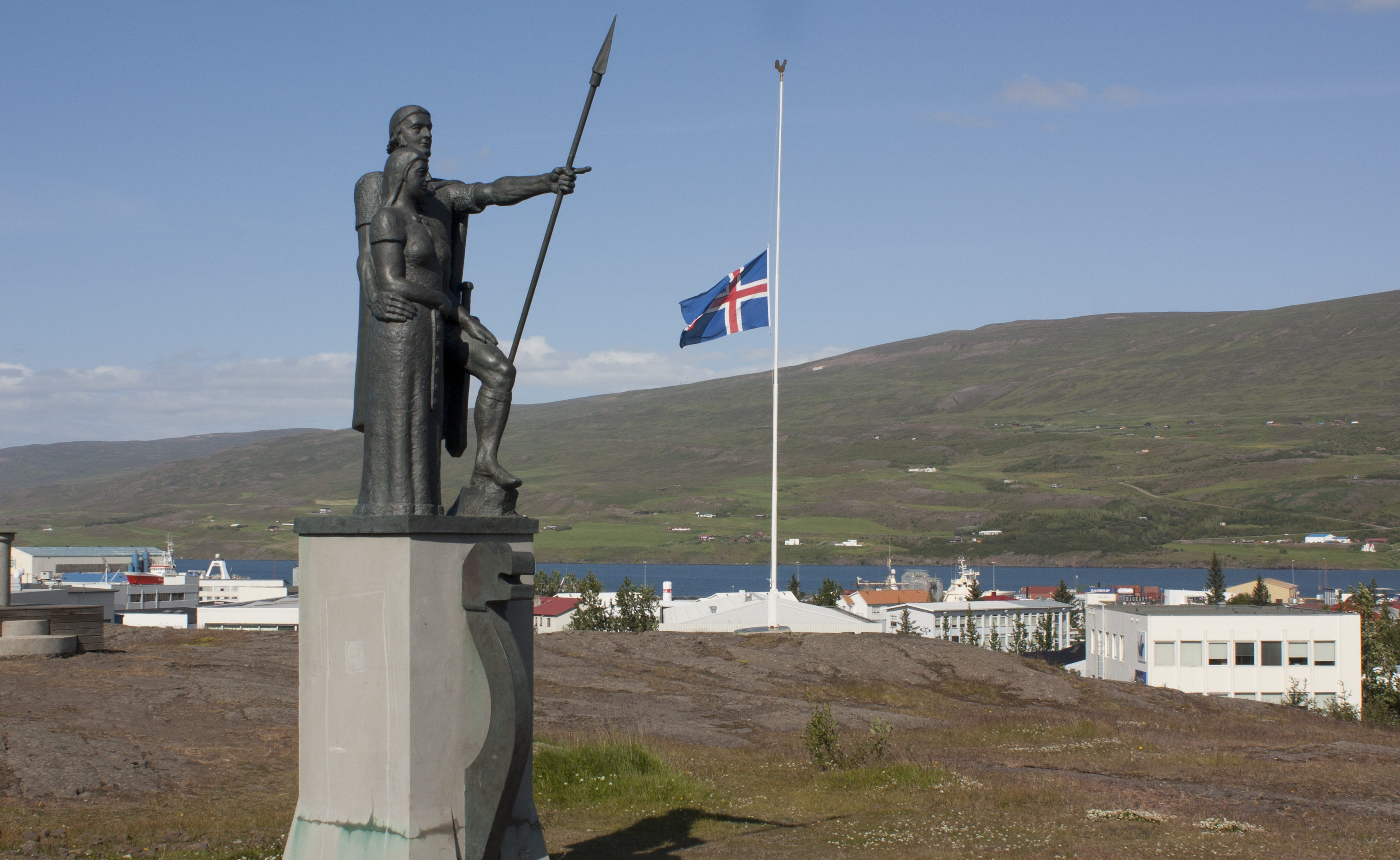 Flag flown at half-mast in Akureyri today for the victims of the senseless tragedy in Oslo and Utoya.